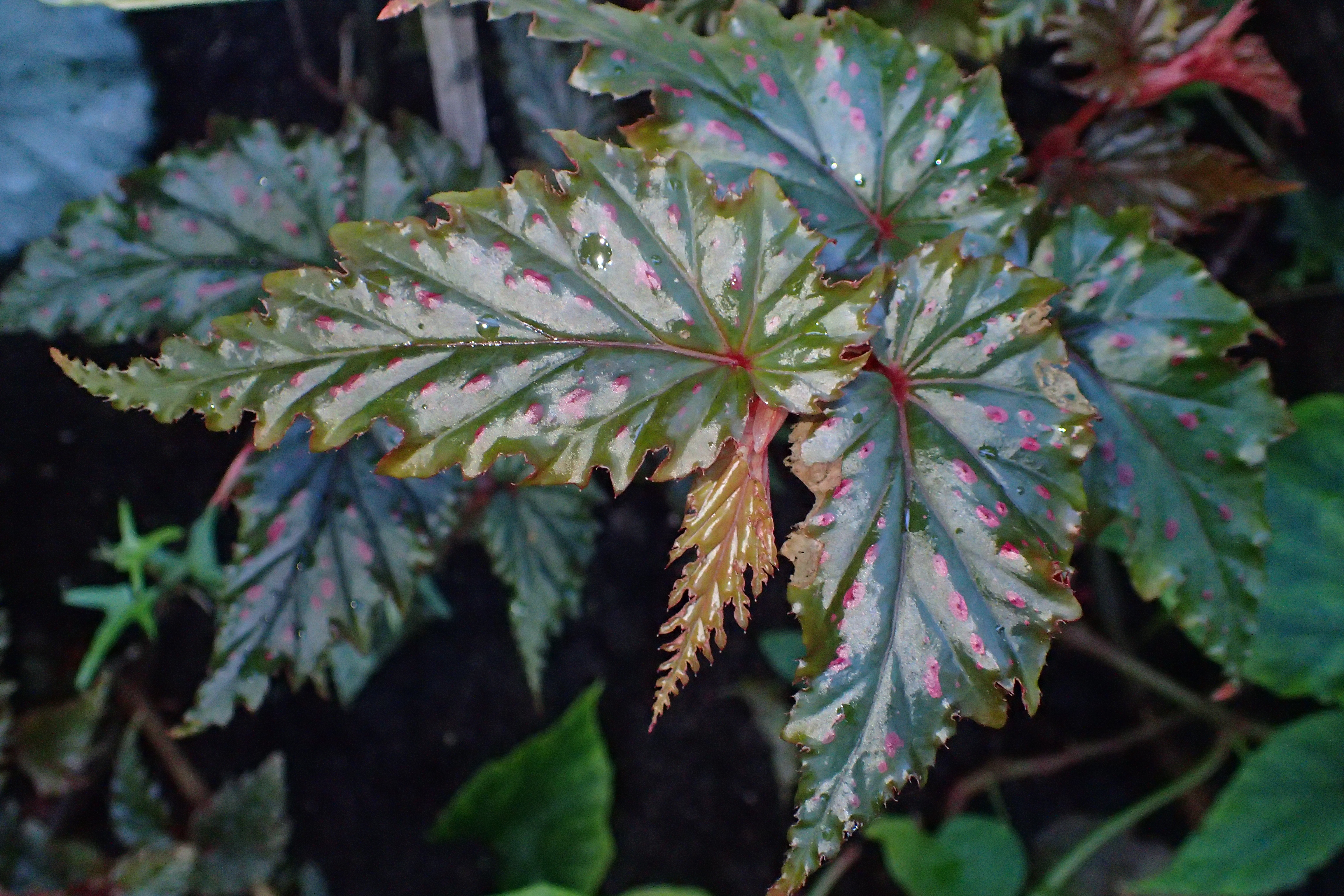 Begonia serratipetala in Botanical Garden of PBA Institute in Bydgoszcz